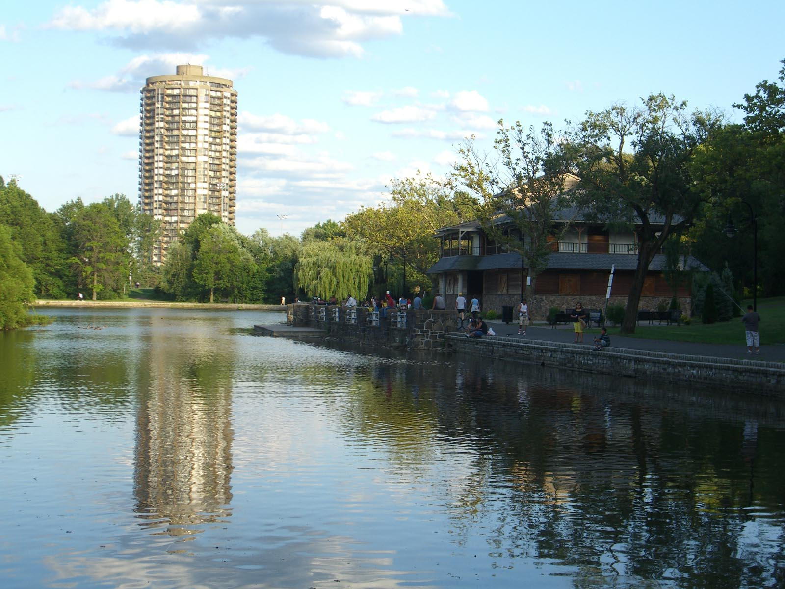 James J. Braddock North Hudson Park in North Bergen, New Jersey.